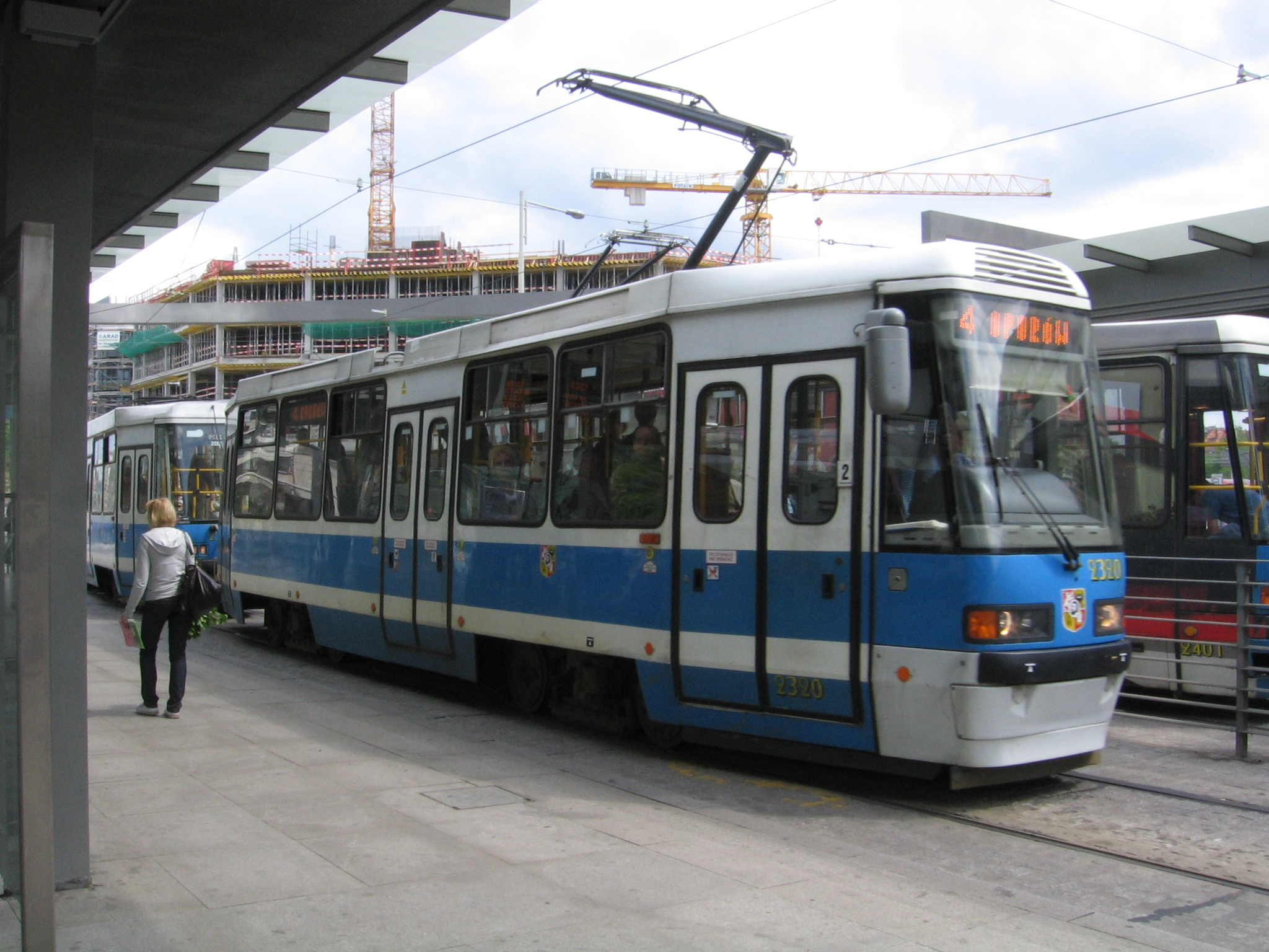 Most popular tram in Wrocław.